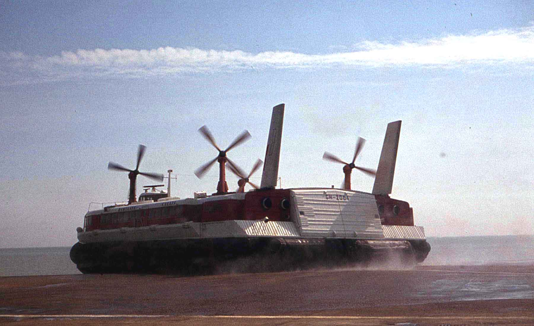 9 April 1977: Hoverlloyd SR.N4 GH 2004 departing Ramsgate Hoverport towards Calais in the afternoon around 4 p.m..